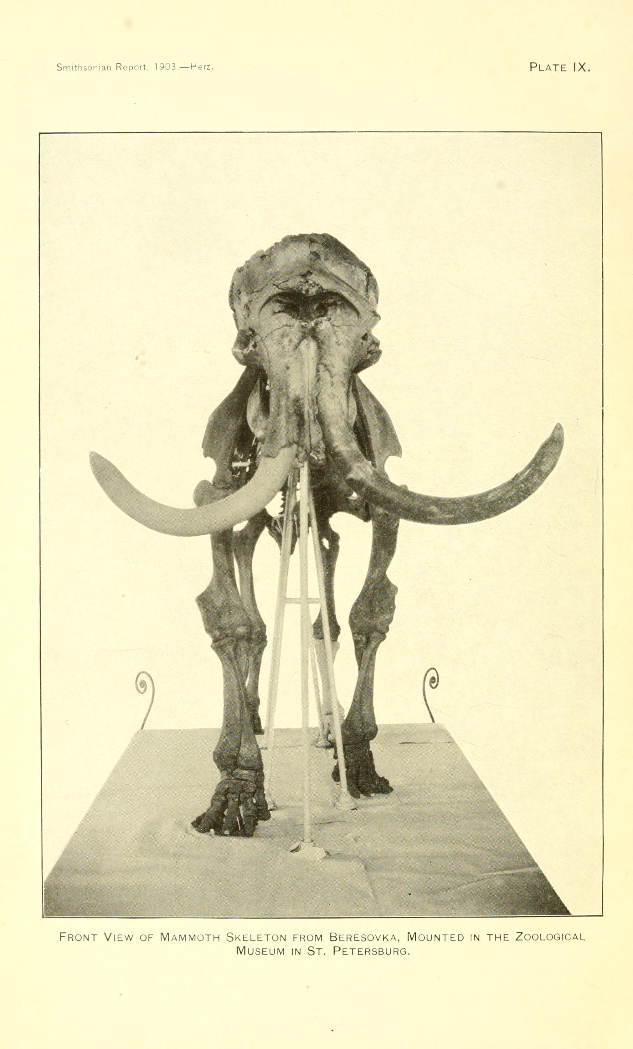 Title: Annual report of the Board of Regents of the Smithsonian Institution Year: 1846 (1840s) Authors: Smithsonian Institution. Board of Regents; United States National Museum. Report of the U. S. National Museum; Smithsonian Institution. Report of the Secretary Subjects: Smithsonian Institution; Smithsonian Institution. Archives; Discoveries in science Publisher: Washington : Smithsonian Institution Text Appearing Before Image: Smithsonian Report. 1903.—Herz. Plate IX. Text Appearing After Image: Front View of Mammoth Skeleton from Beresovka, Mounted in the Zoological Museum in St. Petersburg.